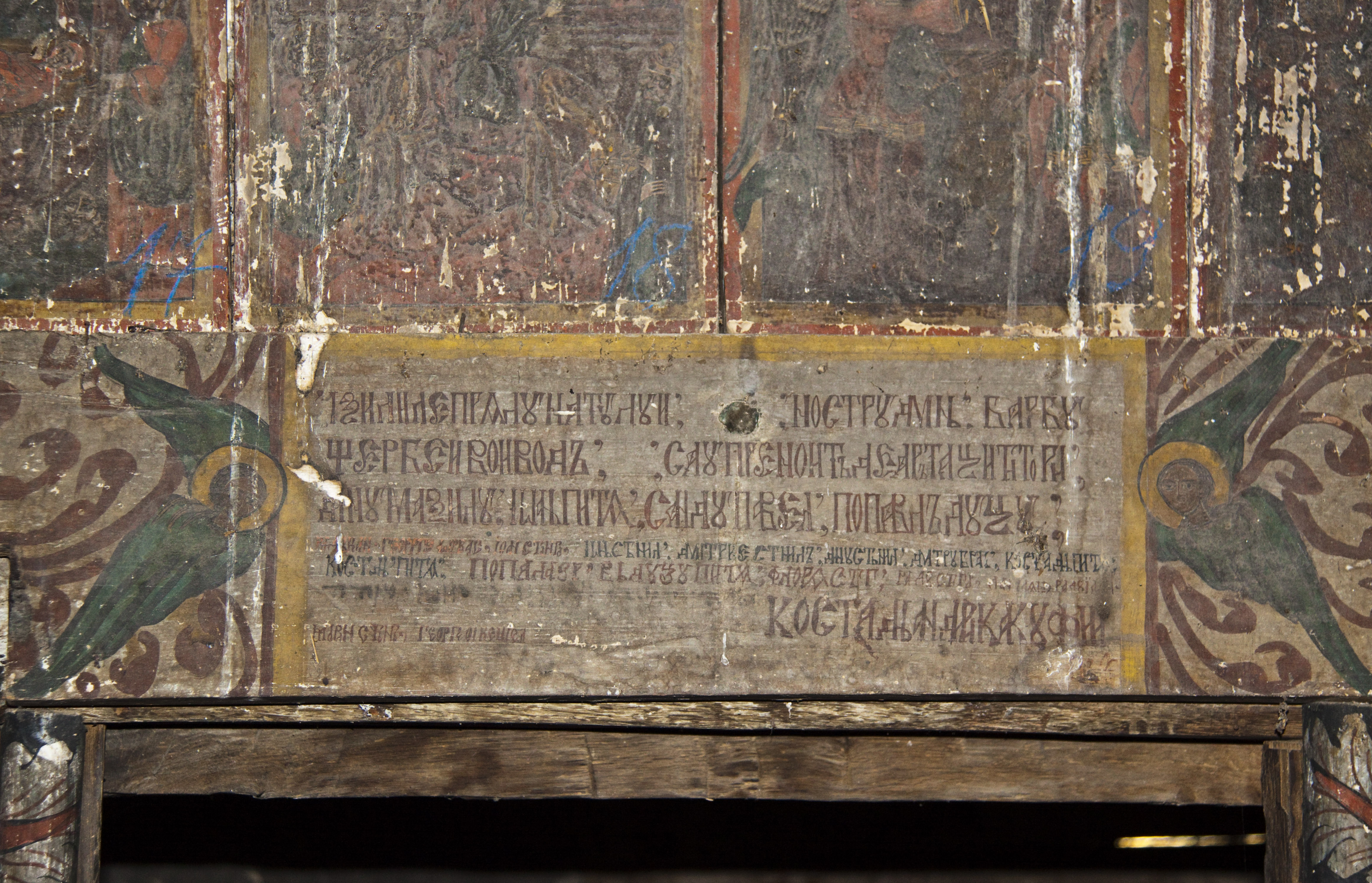 Scoraţa-Pietriş, Gorj county, Romania: the woden church.